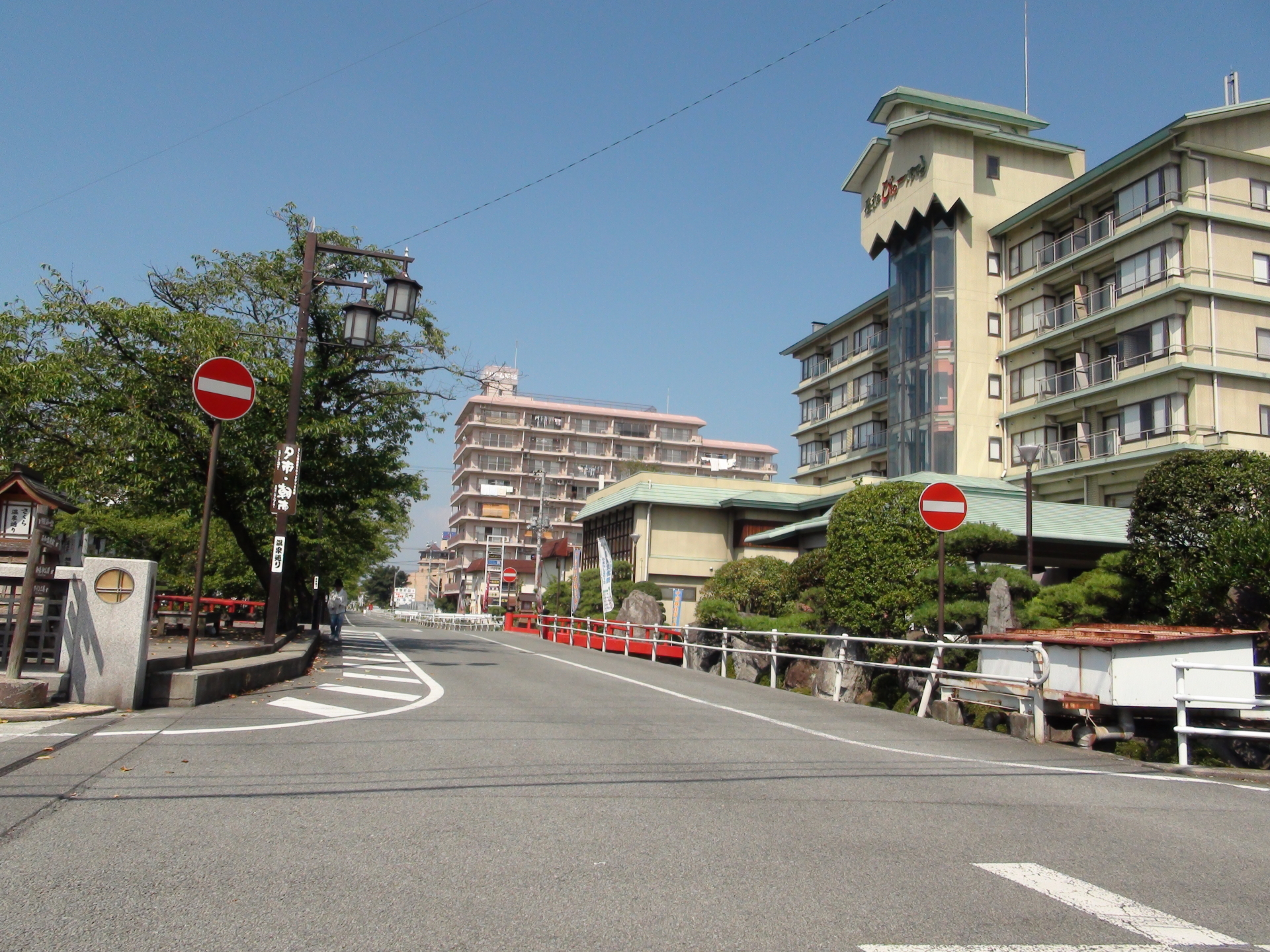 Isawa Spa Town Aug.2013